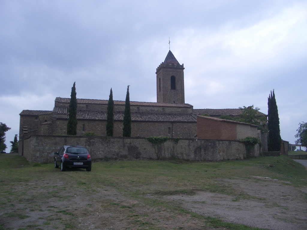 Romanesque church with a basilica plan, featuring unique artistry